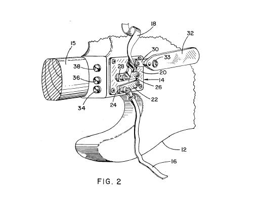 Patent drawing for Glaser guitar string bender, figure 2, patent 4354417, title Tone Changer for Stringed Instrument.